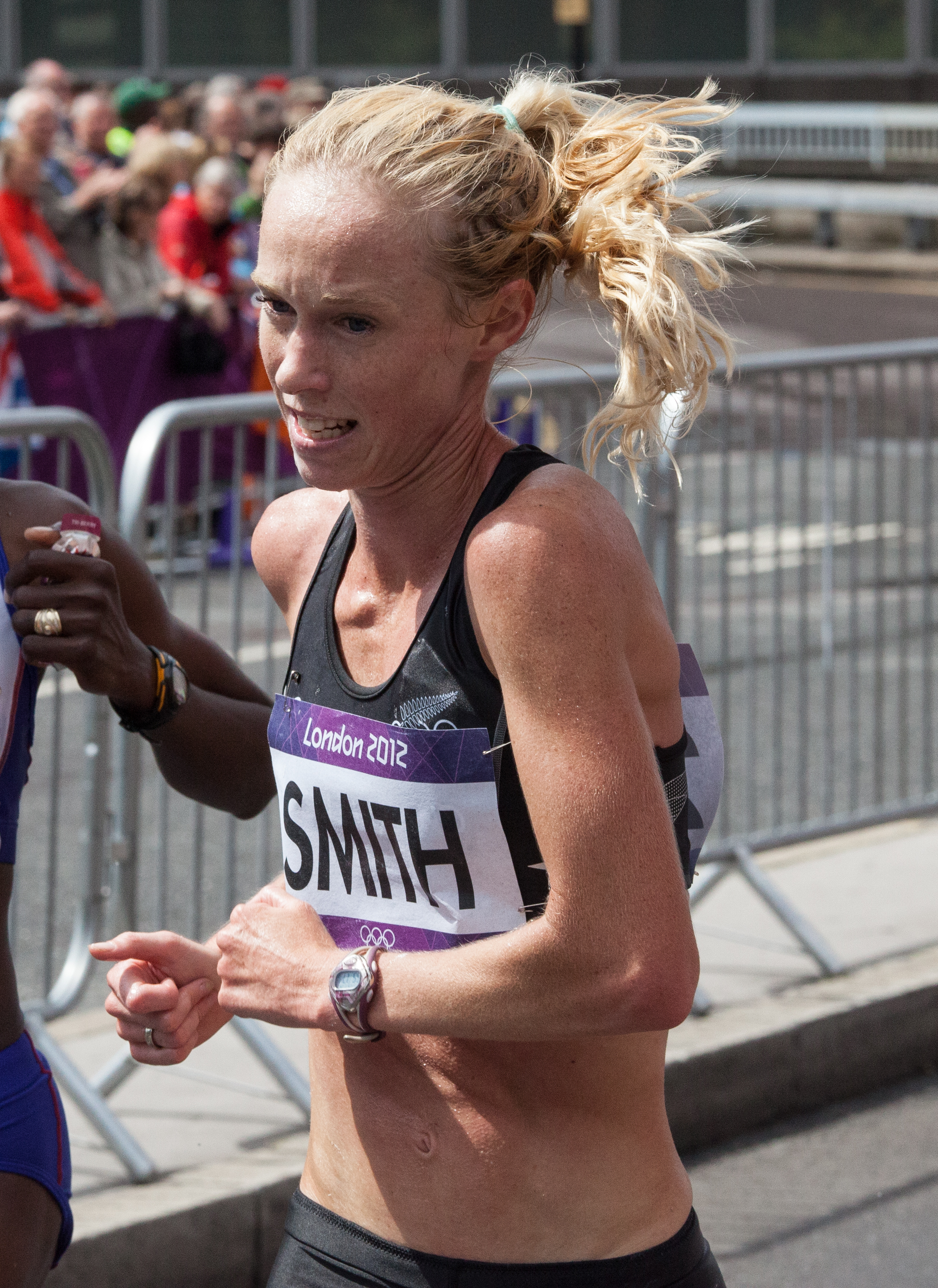 The women's marathon at the 2012 Olympic Games in London was held on the Olympic marathon street course on 5 August 2012.